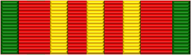 Resolution for Victory Order ribbon